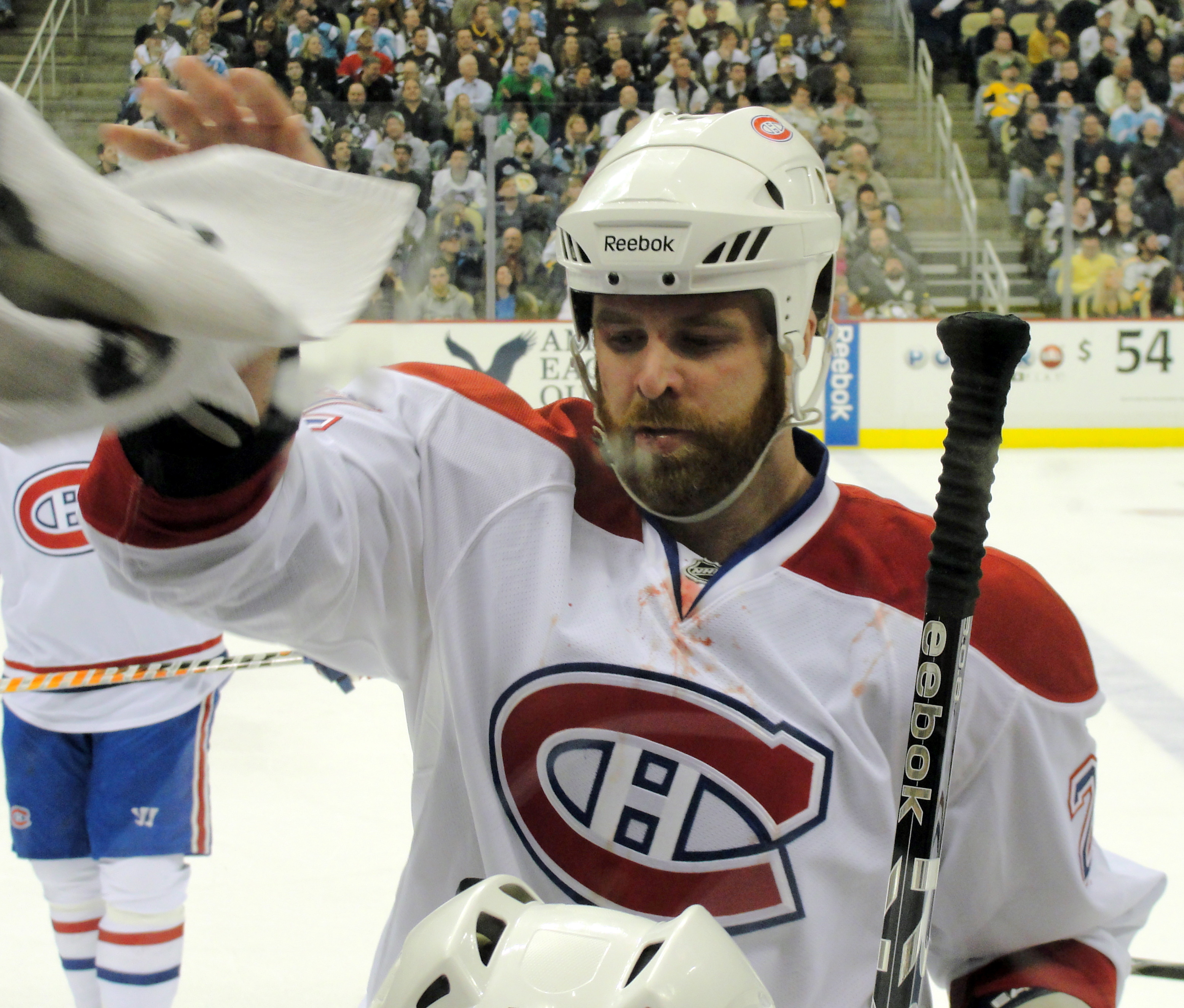 Montreal Canadiens defenseman Paul Mara gets a towel from the bench to attend to a wound suffered in a fight with Max Talbot of the Pittsburgh Penguins, March 12, 2011 at Consol Energy Center in Pittsburgh, PA.